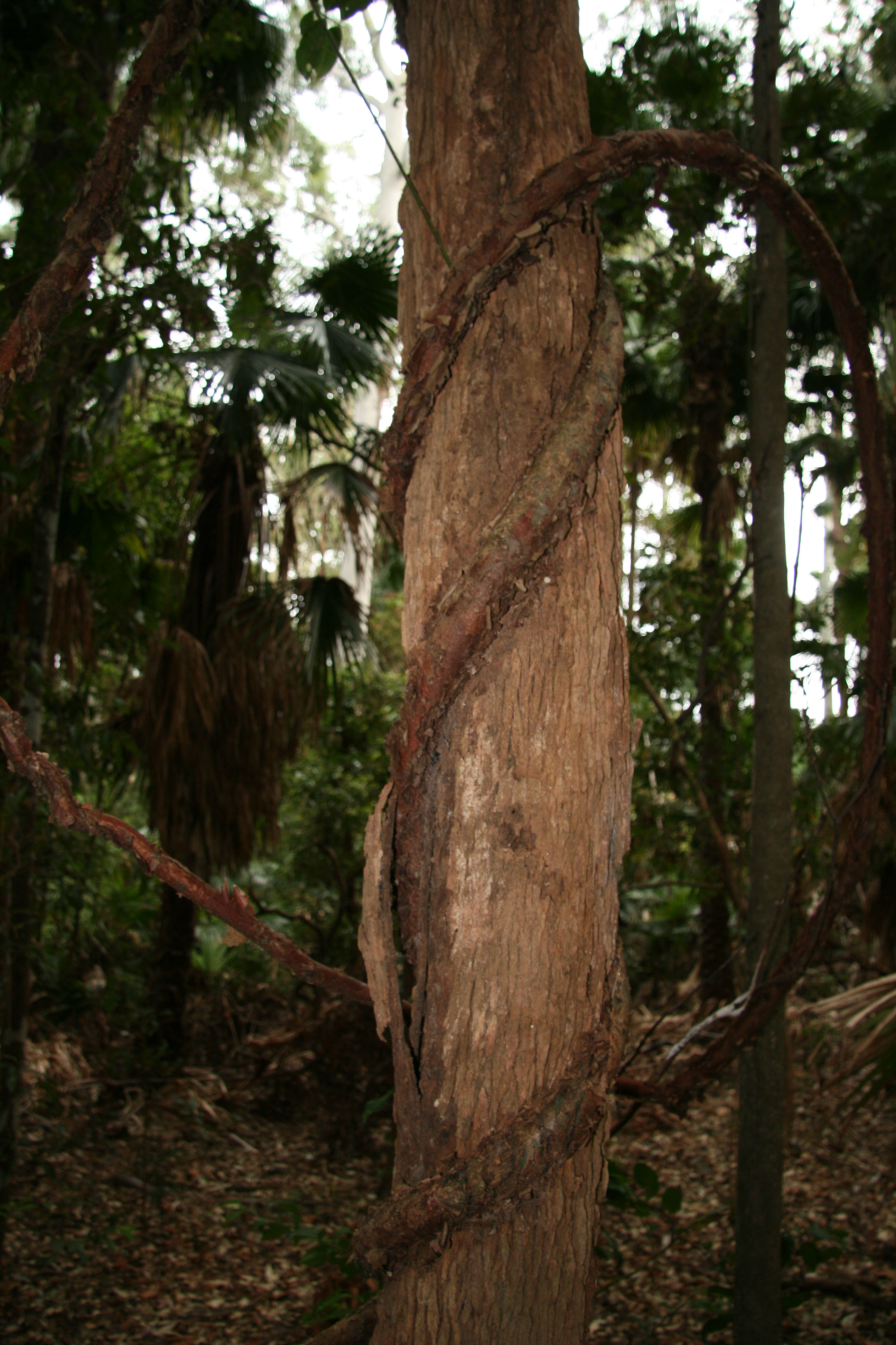 Callerya megasperma vine around a trunk, Alex Forest Conservation Area, Alexandra Headland, Sunshine Coast.